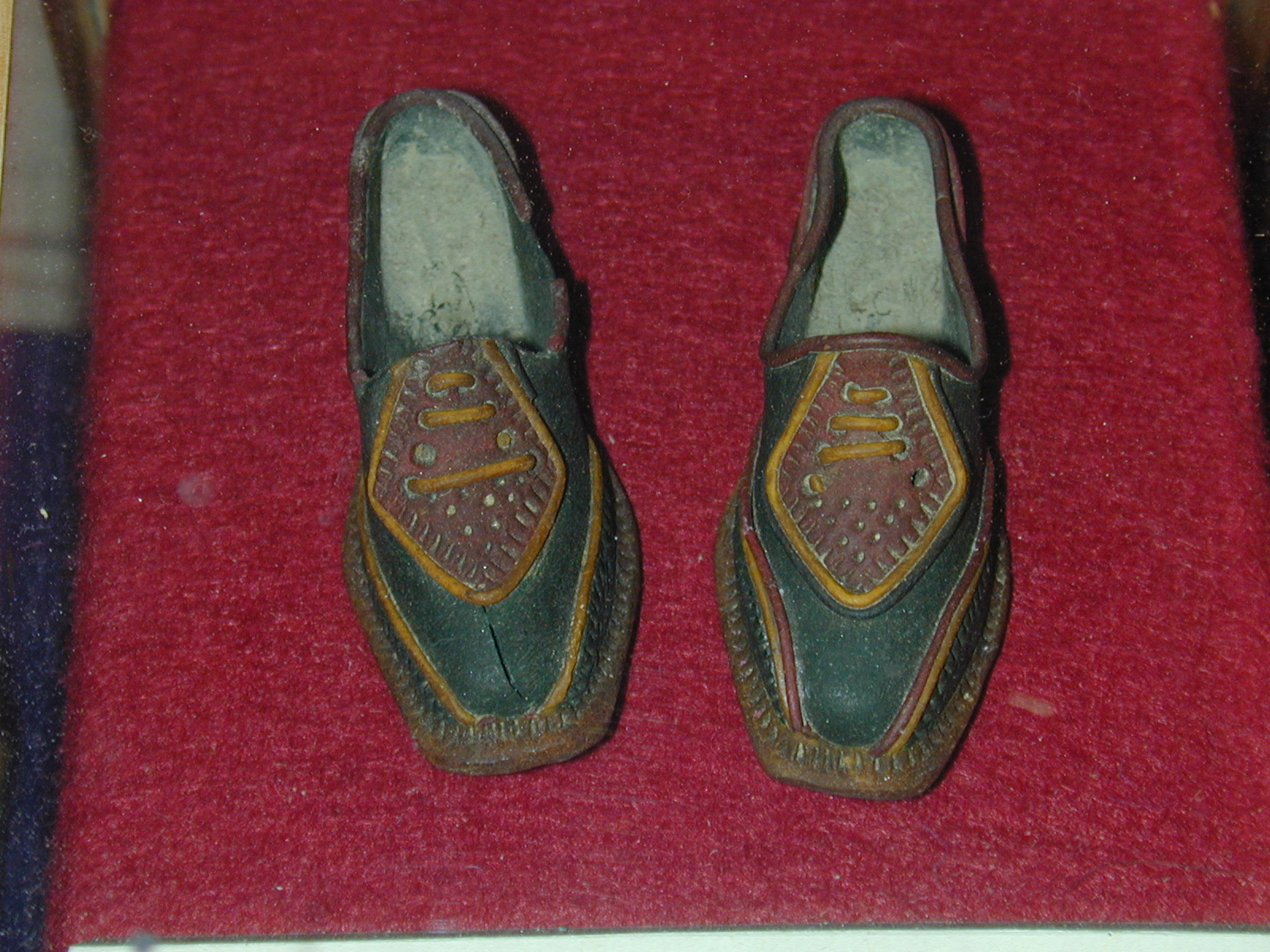 Decorative shoes made from bread by Italian POW during WWII at Eden Camp. Taken 12 February 2004.